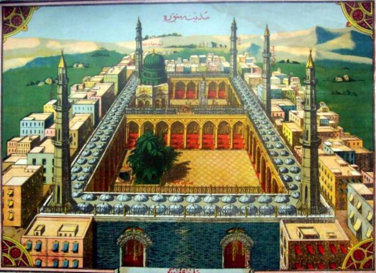 Vintage Print Madina Munavara oleograph Ravi Varma/Verma Press Vintage Print Madina Munavara oleograph Ravi Varma/Verma Press